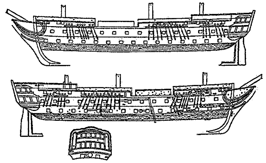 Damage sustained by Russian ship Azov (1826) in the Battle of Navarino. Original scheme compiled by the ship officer(s) in 1827, most likely in Valletta, Malta; redrawn for publication in 1877.